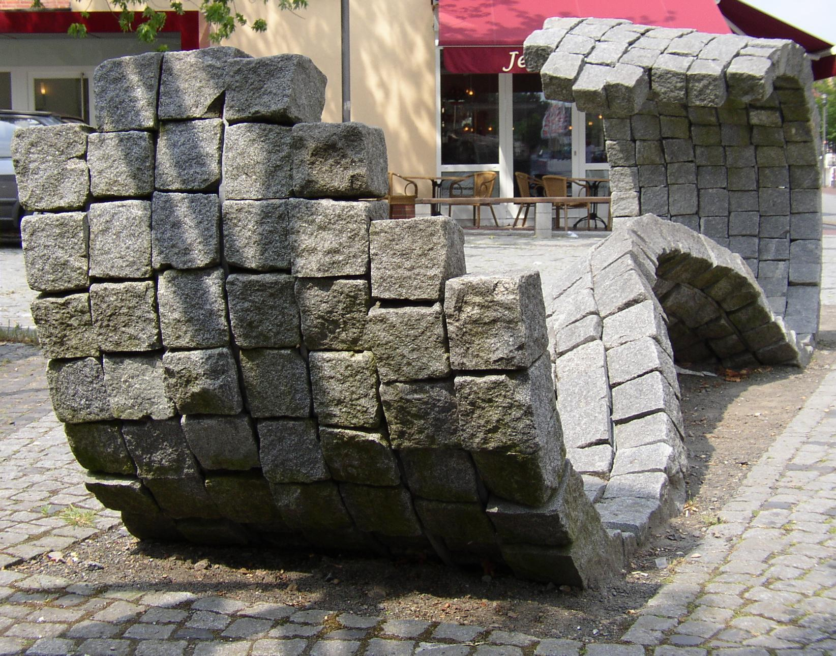 „Wave“ by Martina Benz in Zeven in Lower Saxony, Germany Martina Brenz (1963–) DescriptionGerman sculptorDate of birth 1963 Location of birth Bad Harzburg Work location BremenAuthority control : Q66005355 creator QS:P170,Q66005355